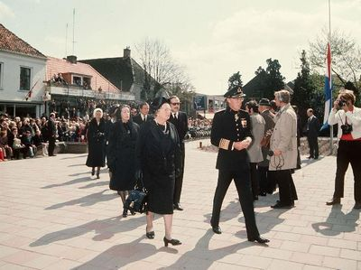 Members of the House of Orange and the Dutch royal family, as well as German relatives of Princess Armgard of Lippe Biesterfeld, mother of Prince Bernhard of the Netherlands, entering the Roman Catholic parish church of Sts. Peter and Paul in Goor (Netherlands) on April 30, 1971, before the Requiem Mass celebrated for the deceased Princess Armgard. Since 1951 Princess Armgard, formerly at Gut Reckenwalde in Woynowo (now Wojnowo, Poland near Sulechów/Züllichau) in eastern Brandenburg, lived at Warmelo Estate in Diepenheim, Netherlands.